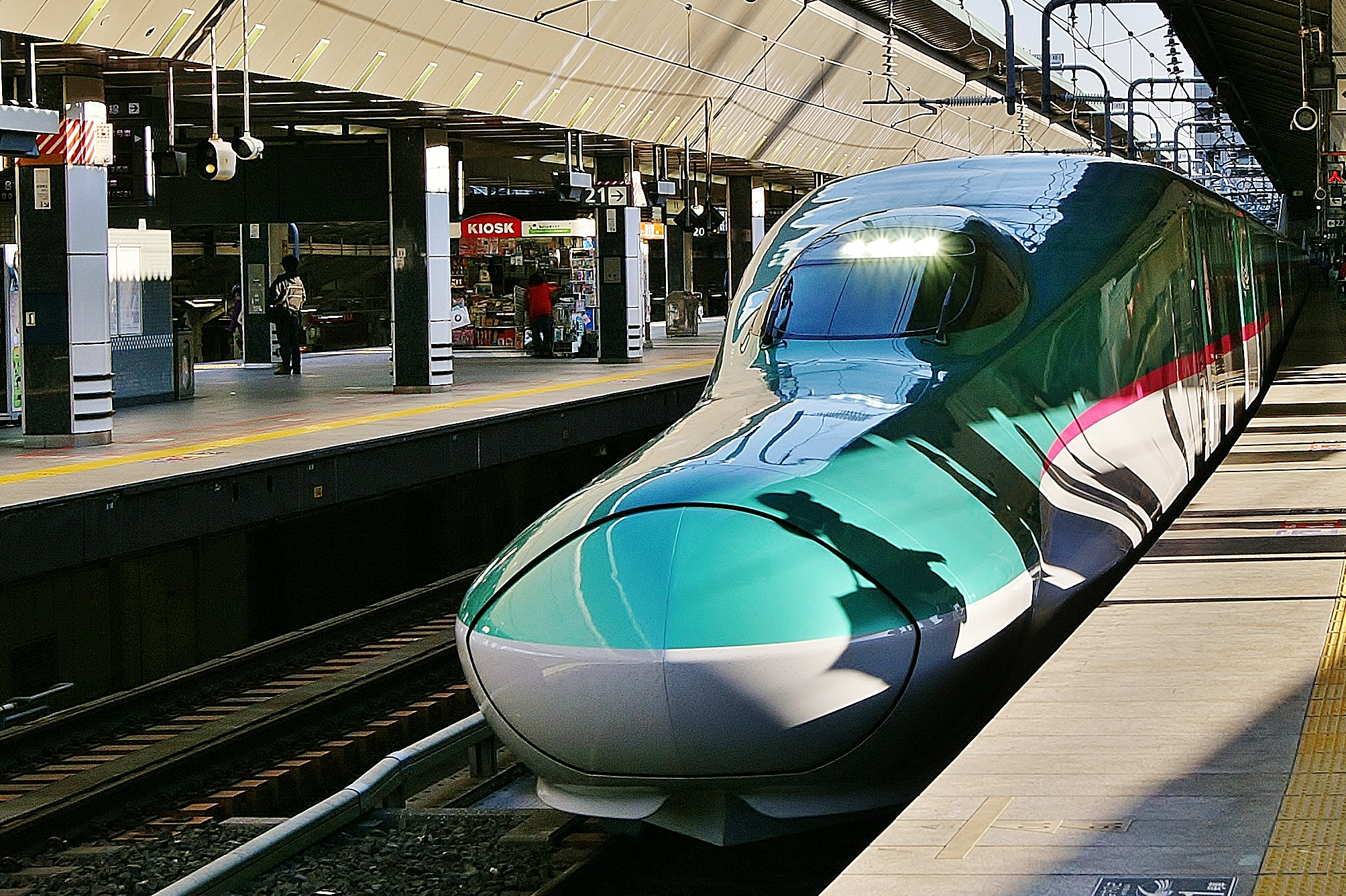 E5 Shinkansen at Tokyo station